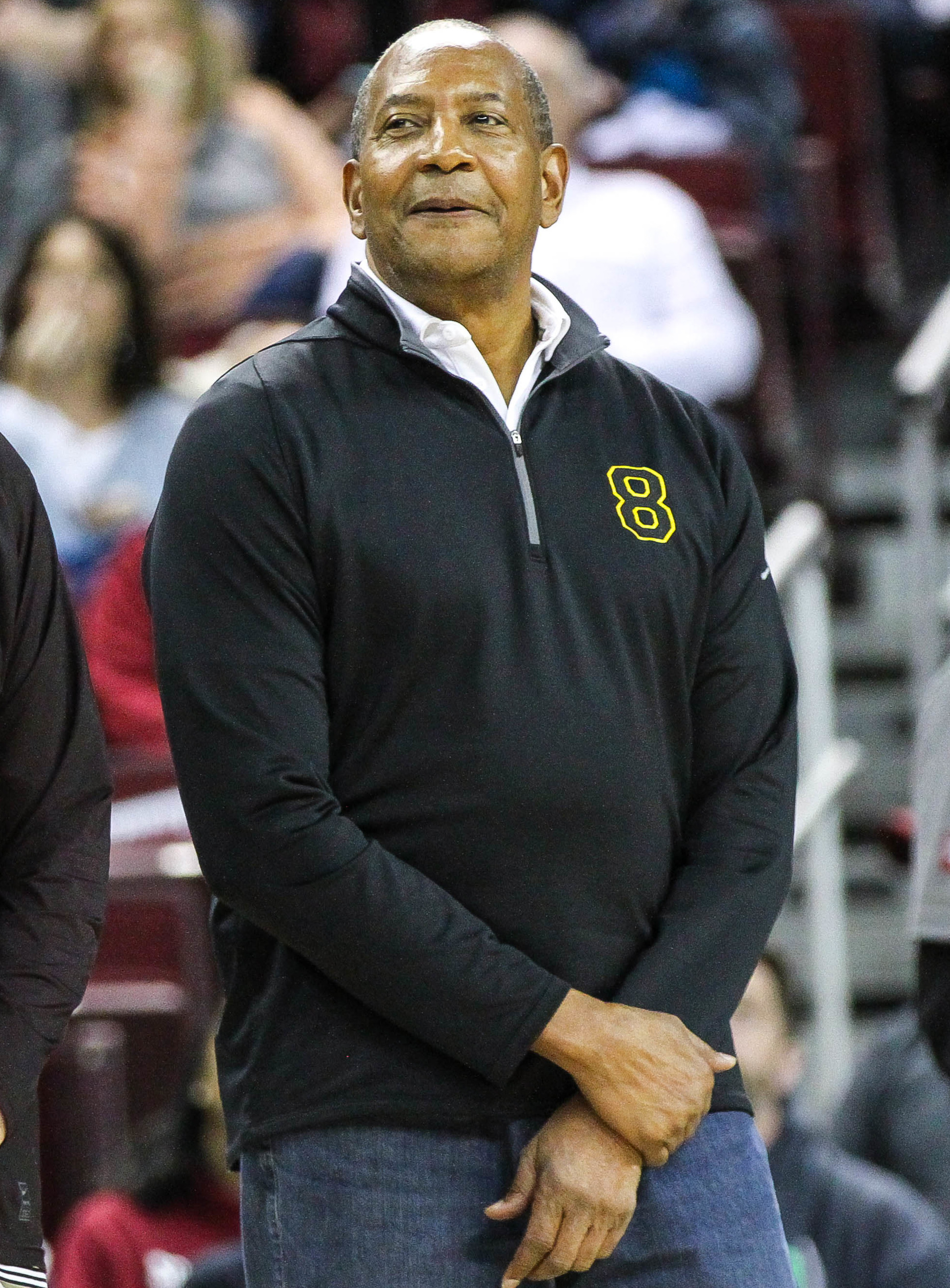 Alex English at a South Carolina Game